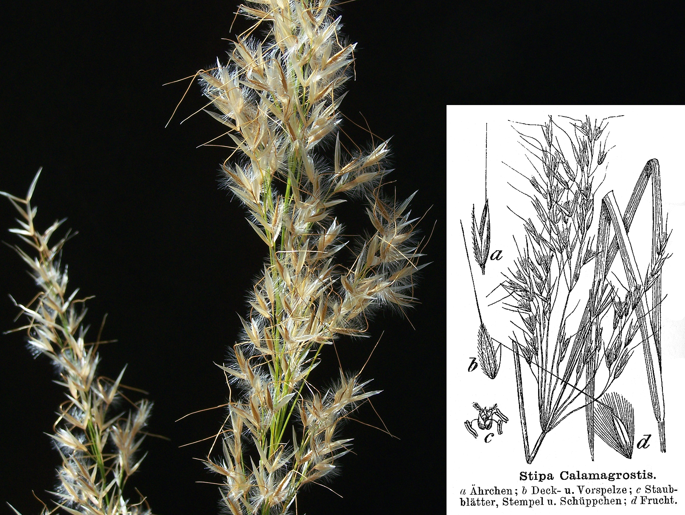 Species: Stipa calamagrostis (L.) Wahlenb. for description see 3571 in Haeupler/Muer Bildatlas der Farn- und Blütenpflanzen Deutschlands, 2007. ISBN 978-3-8001-4990-2